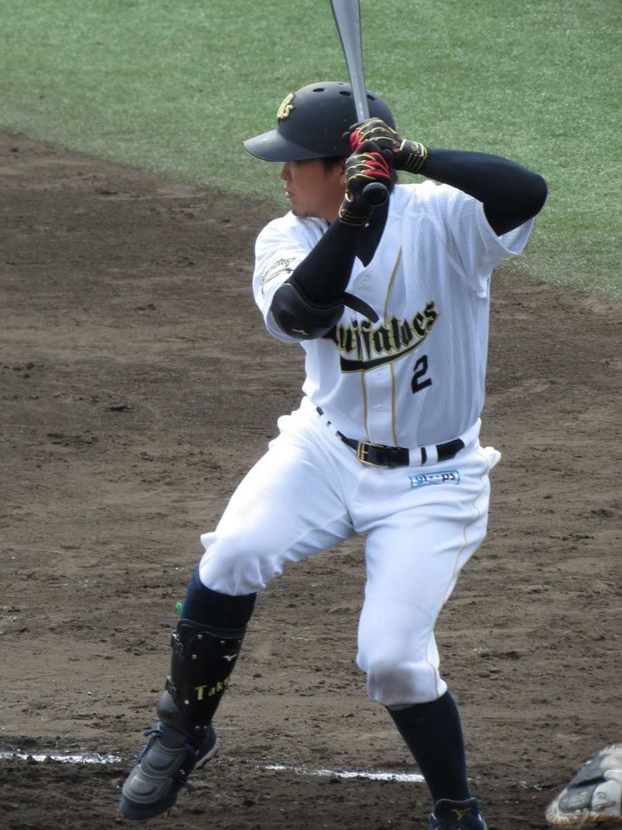 Takuya Hara, infielder of the Orix Buffaloes, at Kobe Sports Park Sub Baseball Ground.